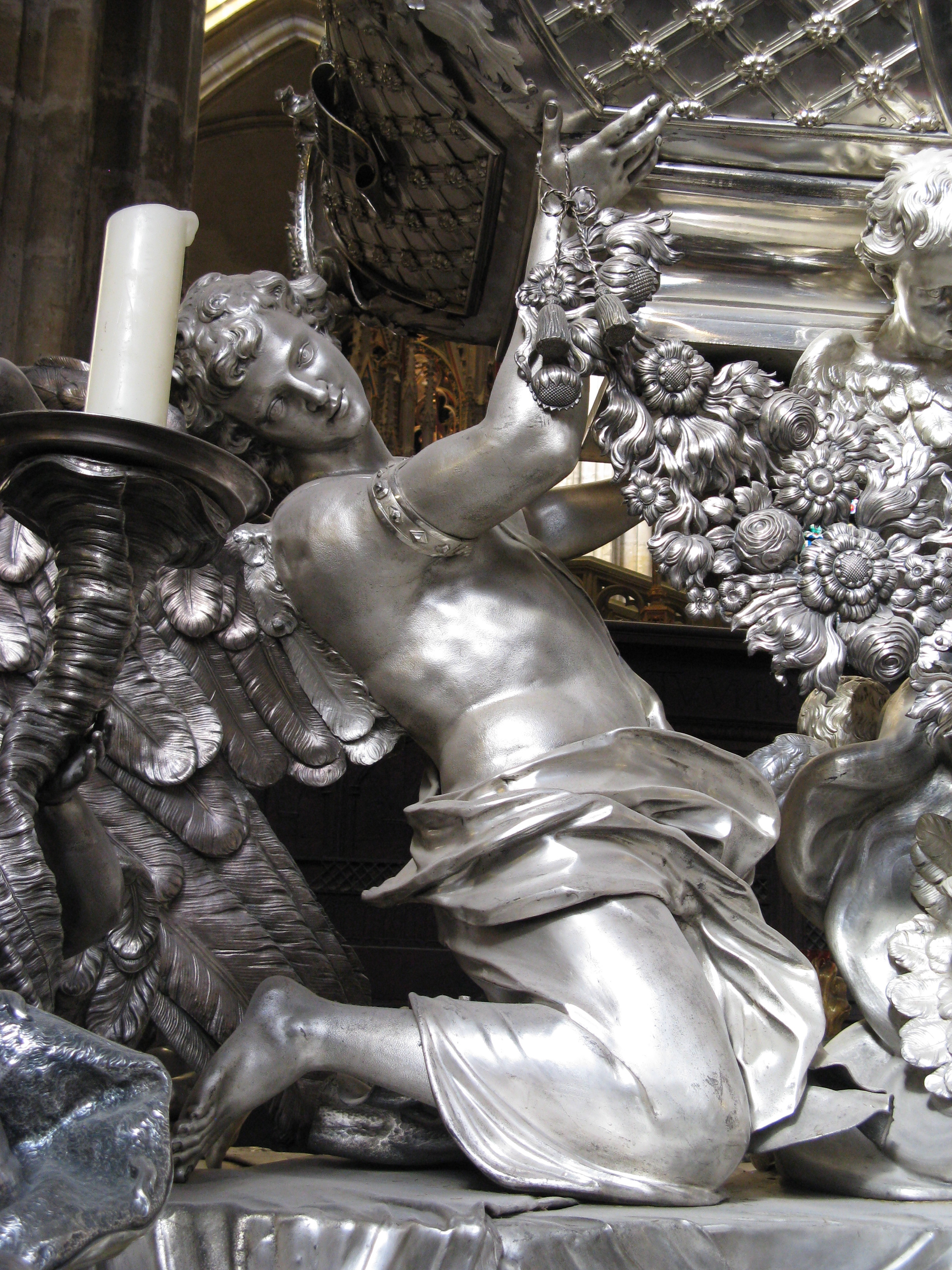 St. John Nepomuk's tomb-Detail.